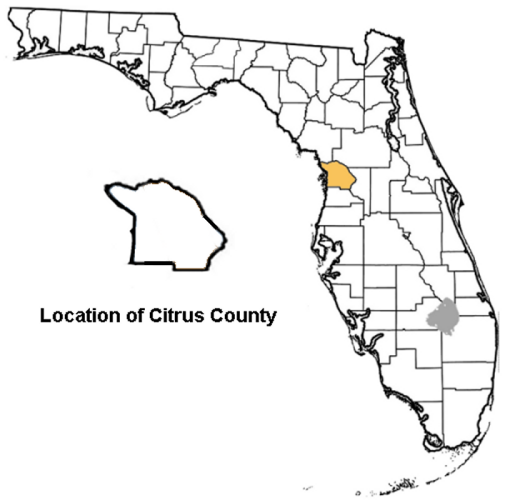 Depicts Citrus County, Florida